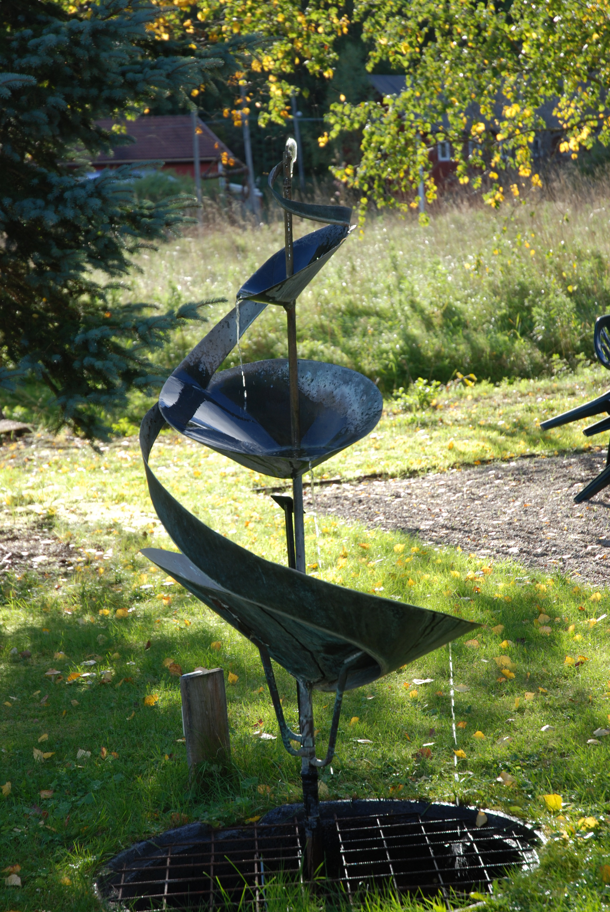 Pierre Olofsson´s fontain Vattenskvittra, copper, 1959, at Galleri Astley, Uttersberg, Sweden